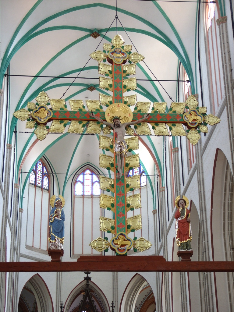 Triumphcrucifix in the Schwerin Cathedral in Schwerin, Germany